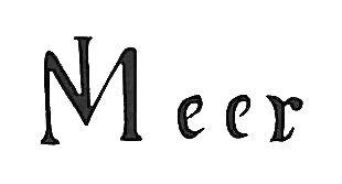 autograph of the painter Johannes Vermeer